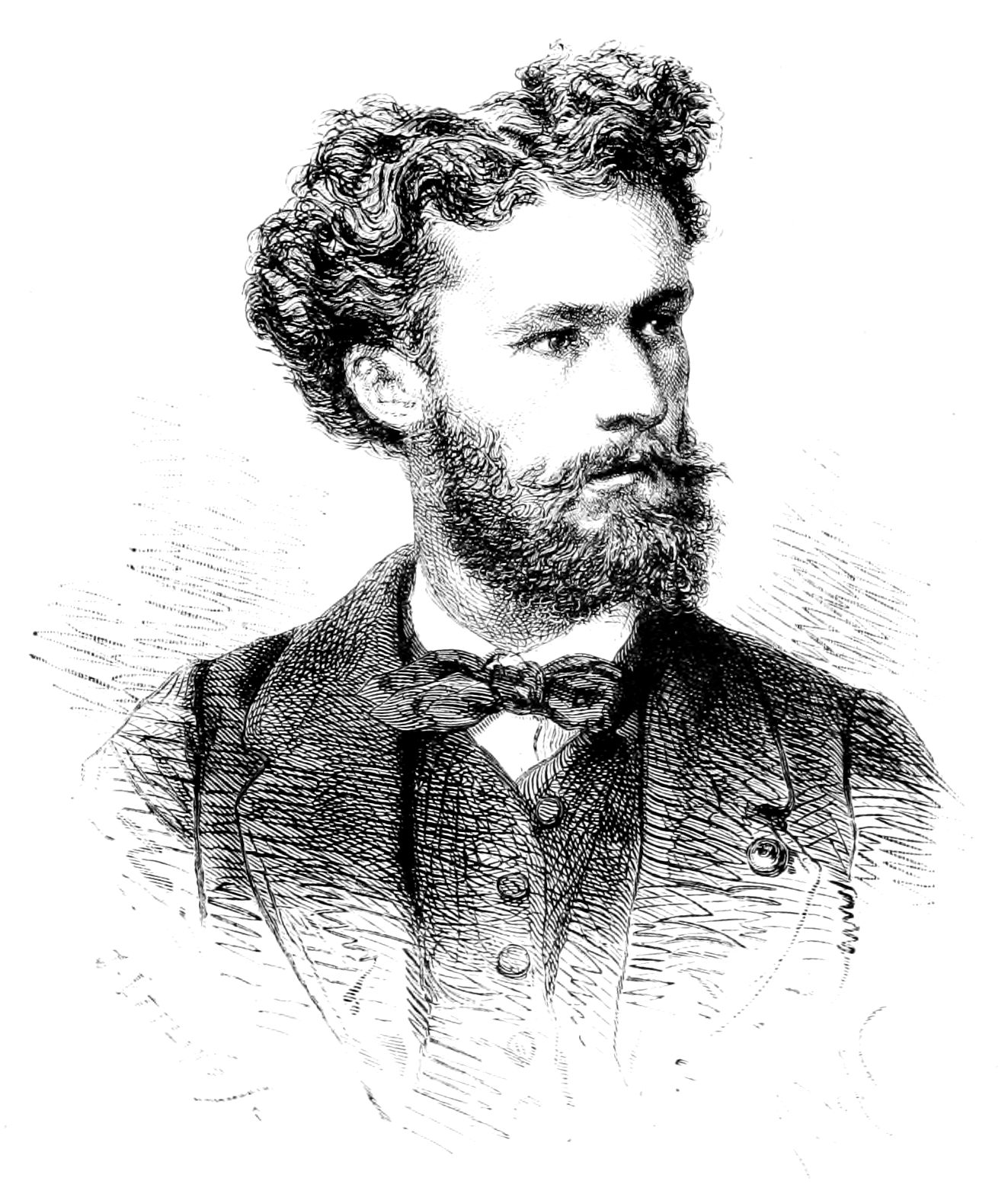 Camille Flammarion.